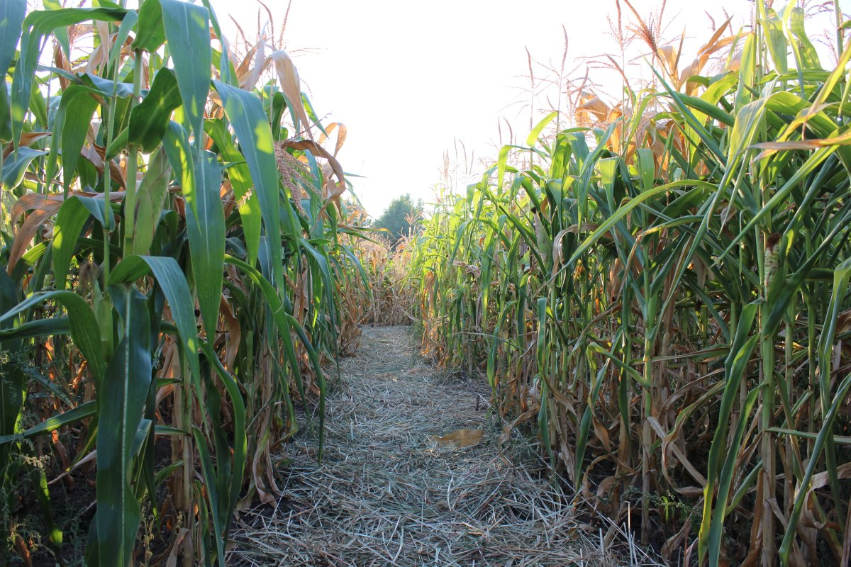 The first corn maze in Ukraine was made in august 2015.